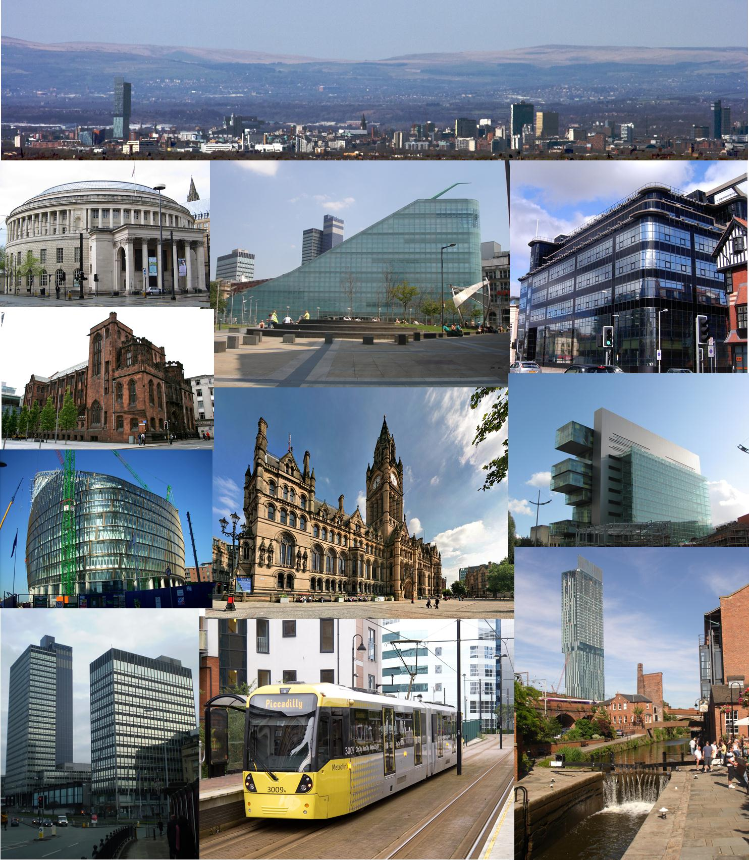 A montage of Manchester with panorama of Manchester skyline at top. Top left to bottom right: Manchester Central Library Urbis Daily Express Building, Manchester Rylands Library Manchester Town Hall Civil Justice Centre 1 Angel Square CIS Tower Manchester Metrolink tram Castlefield with Beetham Tower, Manchester in the background